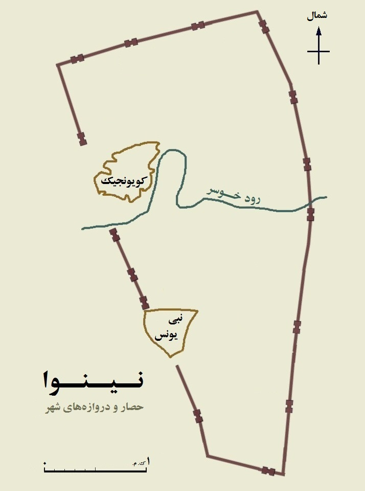 Simplified plan of ancient Nineveh showing city wall and location of gateways